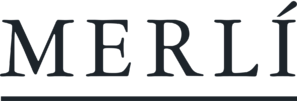 Logo for the Catalan television series Merlí.